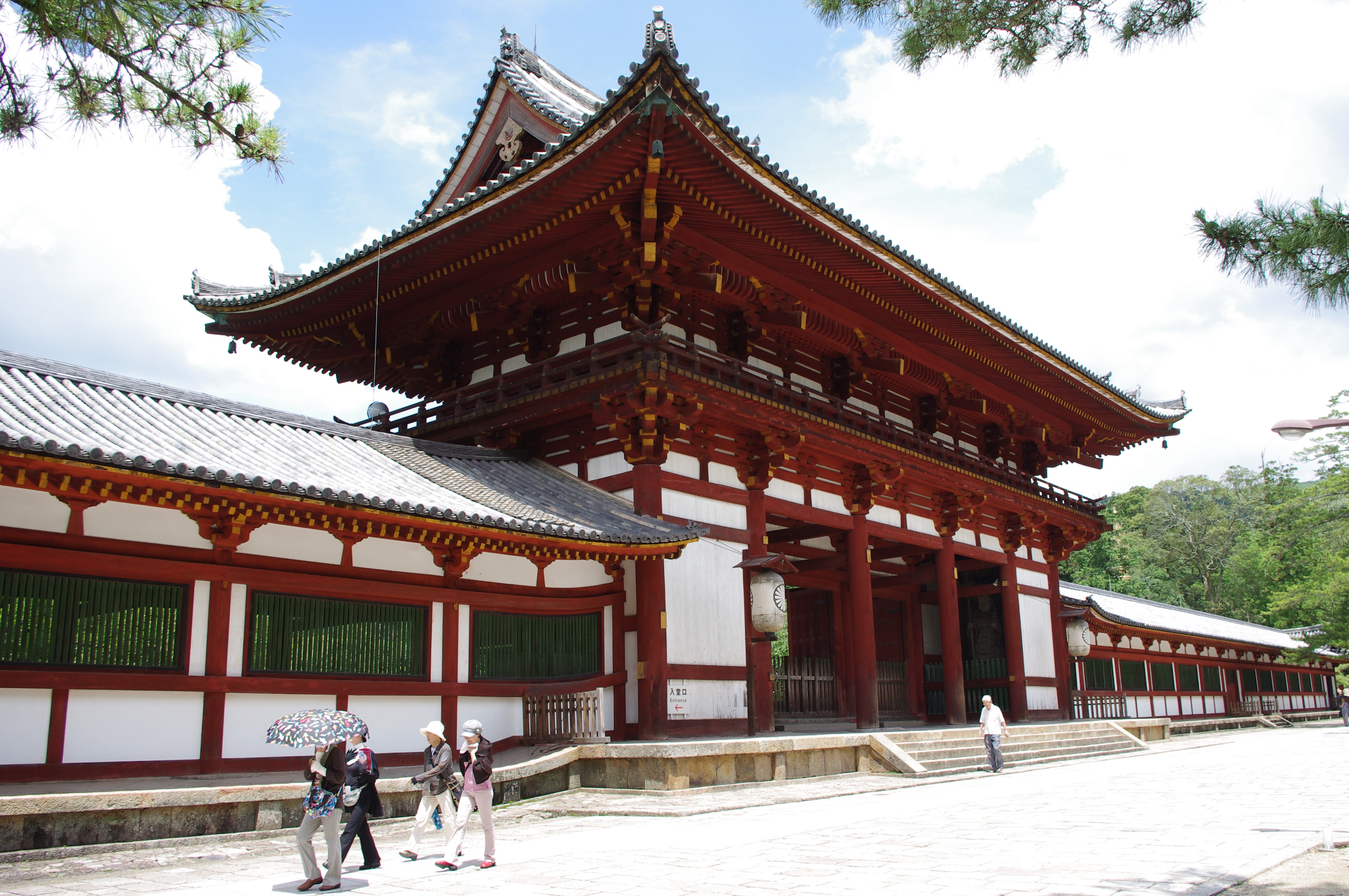 The Central Gate of Todaiji Temple, Nara, Japan